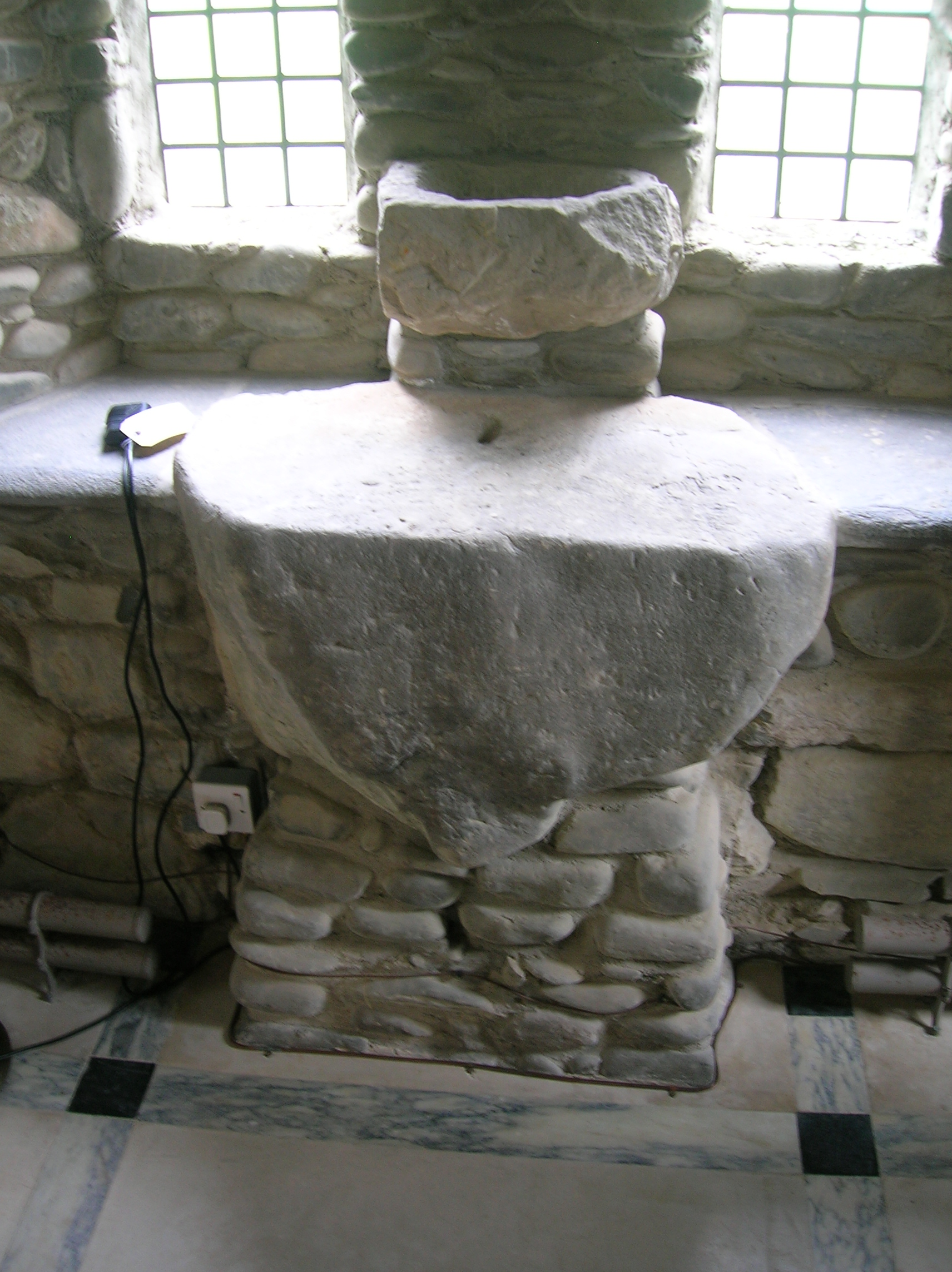 Stobo Kirk in the Borders, Scotland with Merlin Sylvestris's atarstone where he was converted to Christianity by Saint Kentigern.